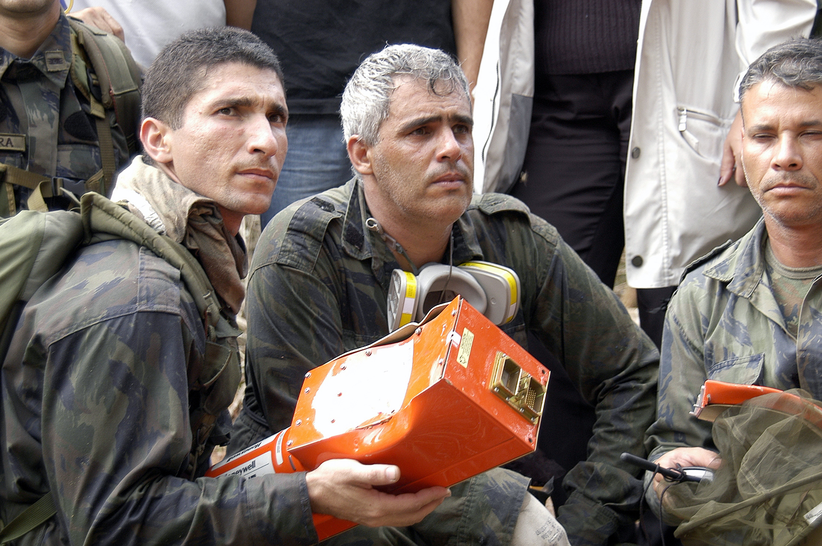 Brazilian Air Force personnel recover the flight data recorder of PR-GTD, the Boeing 737-8EH used for Gol Transportes Aéreos Flight 1907, in the Amazon Rainforest in Mato Grosso, Brazil. PR-GTD crashed after a September 29, 2006 mid-air collision with a business jet.